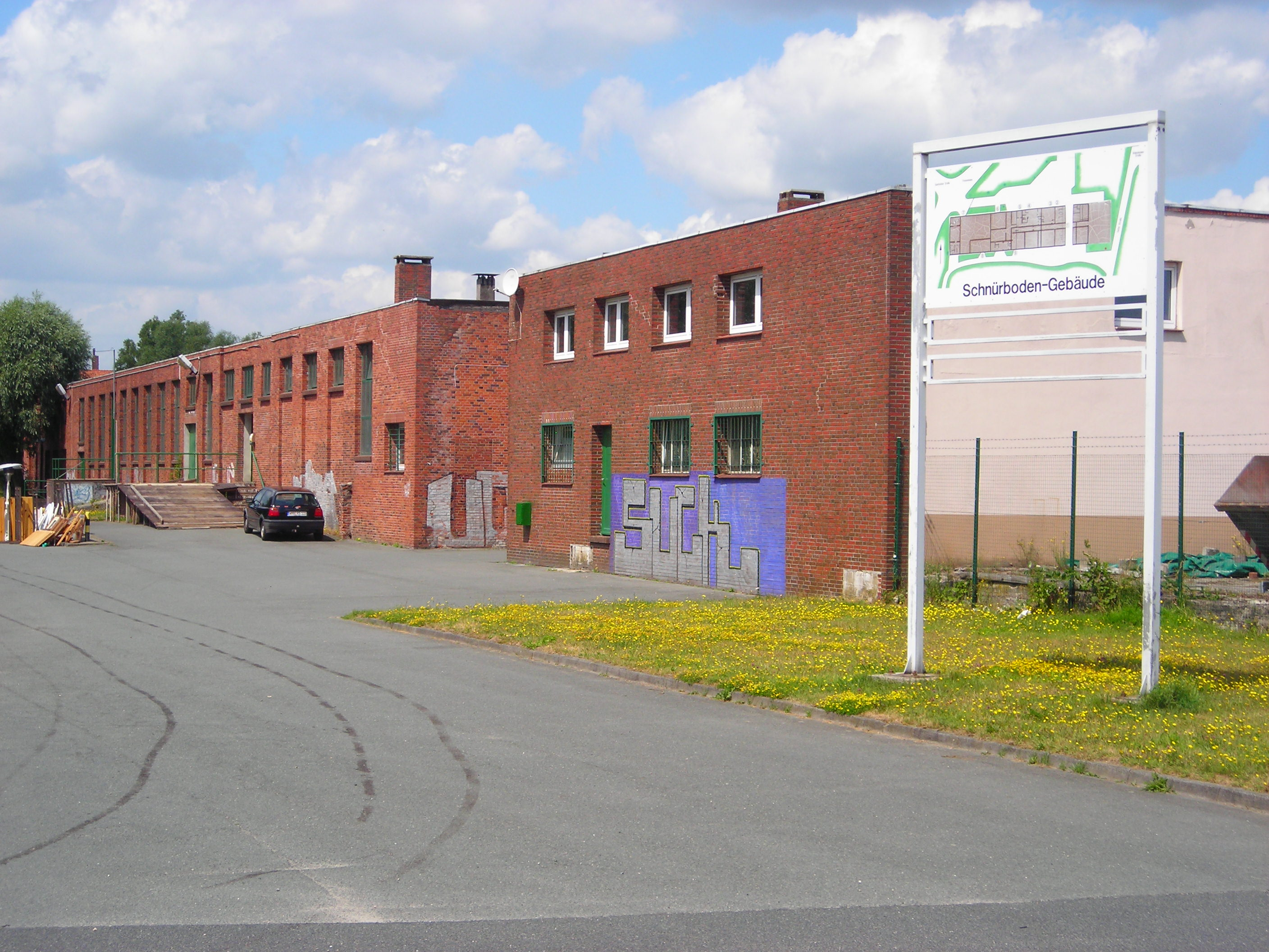 The design and drafting hall of the former Nordwerft shipyard in Wilhelmshaven, Germany